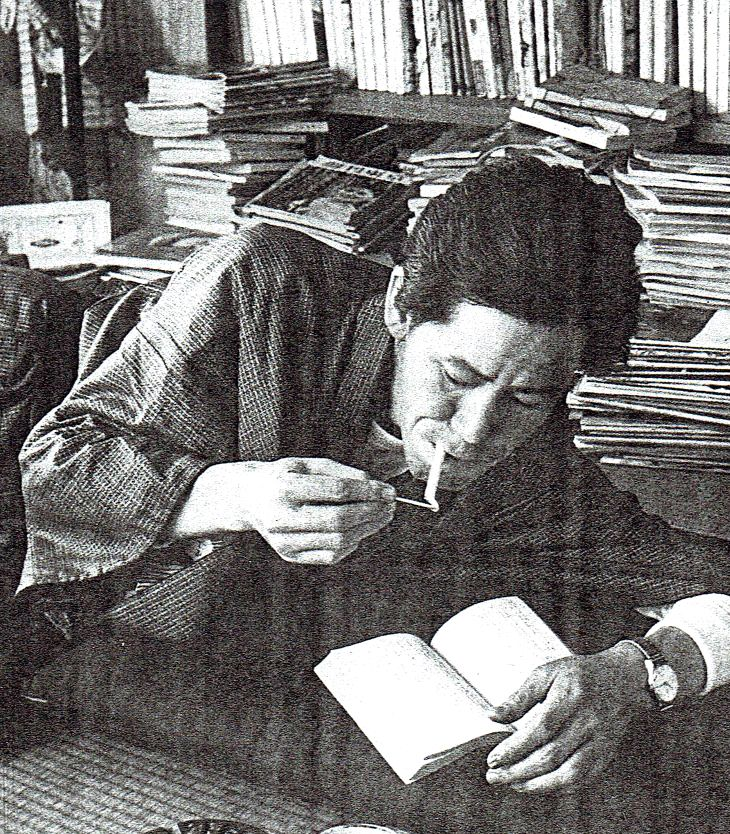 Kō Nakahira